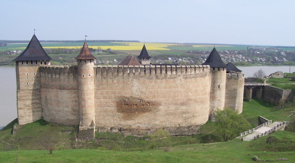 Stronghold in Khotyn (Khotyn), Ukraine